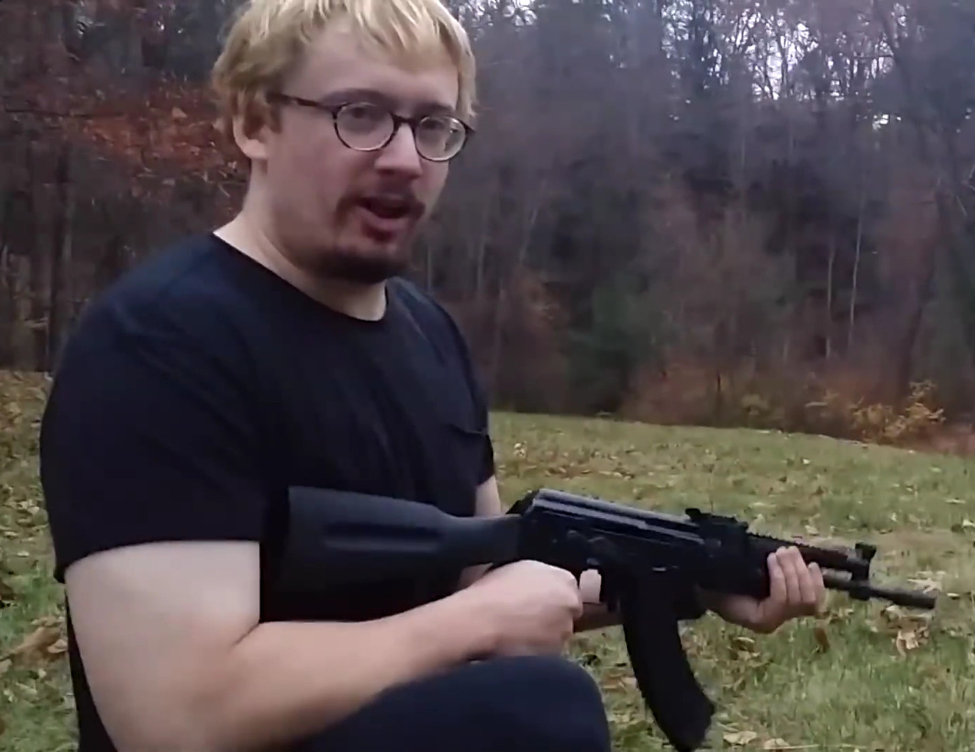 Sam Hyde with rifle